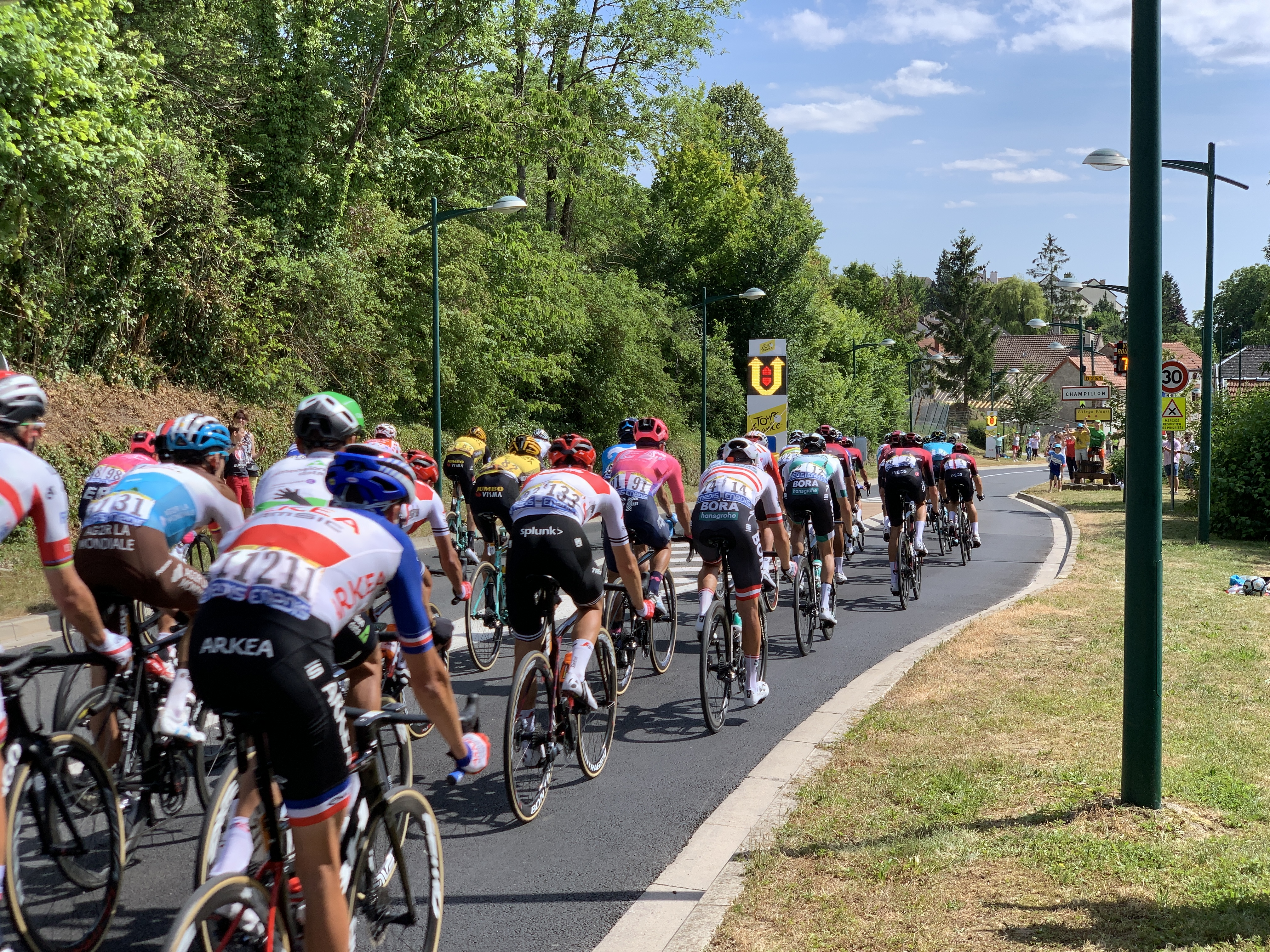 Safety sign in during stage 3, Tour de France 2019